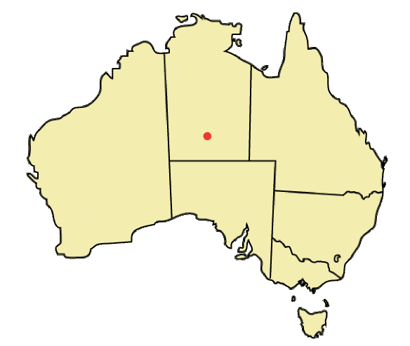 Location of Alice Springs in Australia map.